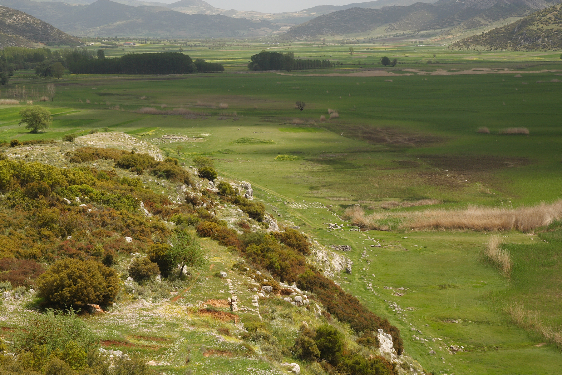 Stymphalos, Peloponnese, Greece. Archaeological Excavations 1980-2002: Akropolis: House basements. Green floor: Citywall, Southwest Gate, basements of residential houses. Shady surface is adequate to the lake surface.